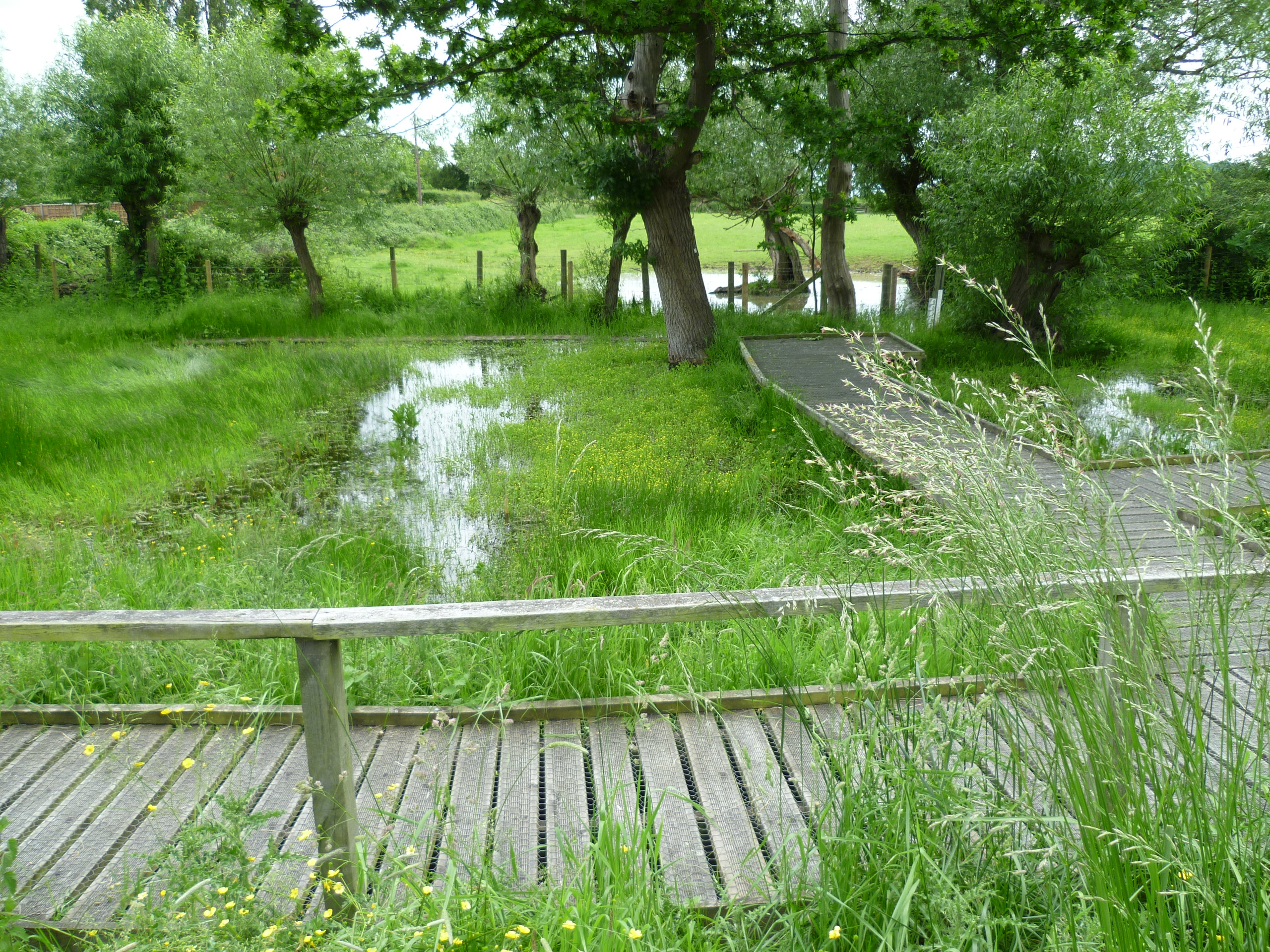 Flowering of the rare Adder's-tongue Spearwort ('Badgeworth Buttercup' - Ranunculus ophioglossifolius) at an Open Day (2012) at the Gloucestershire Wildlife Trust Badgeworth nature reserve (SSSI) in Gloucestershire (England).